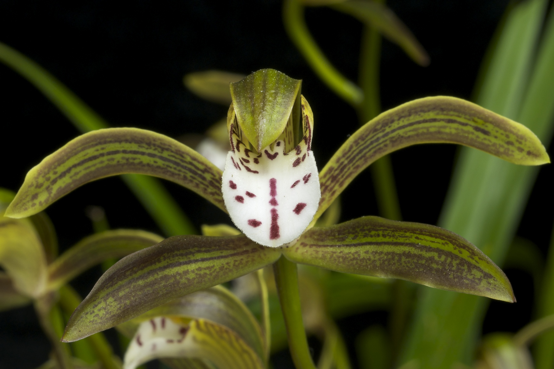 Species from India